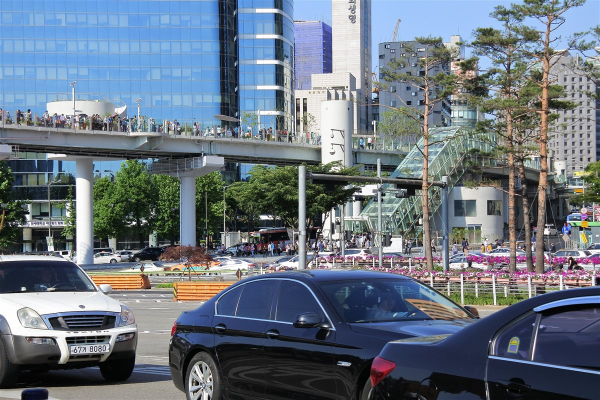 East side stairs to Seoul 7017 Skypark, Korea